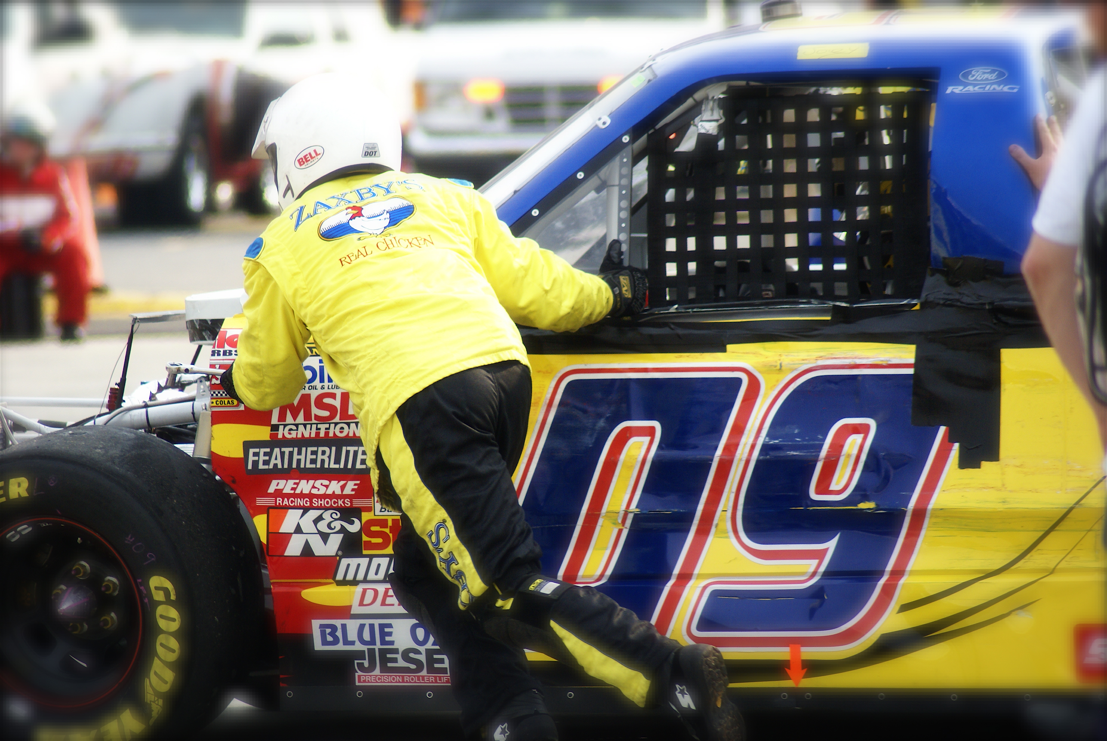 Joey Clanton's crew attempts to repair his No. 09 Zaxby's Ford in the 2007 Kroger 250 at Martinsville Speedway.